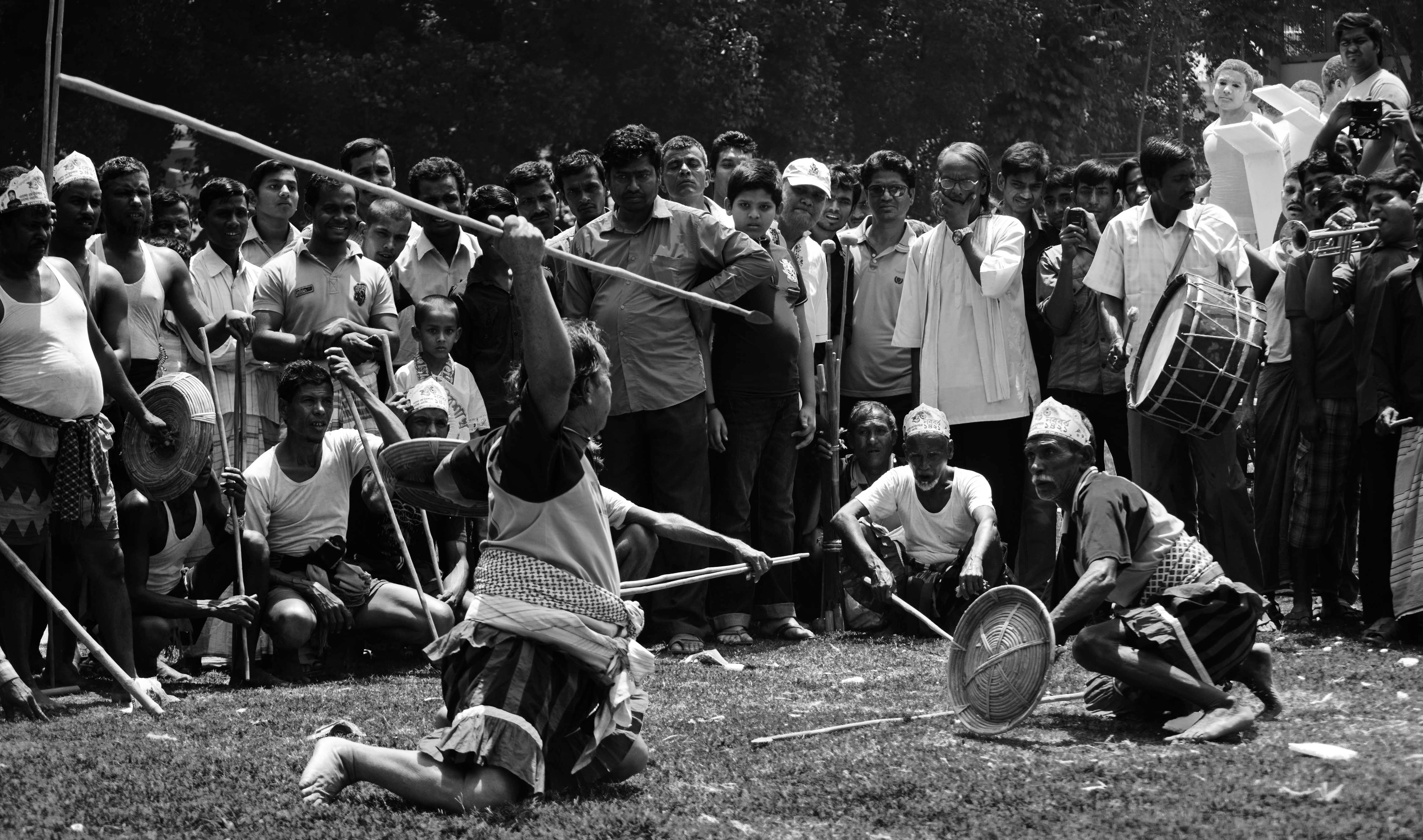 Lathi khela, a traditional Bangladeshi martial art in Bindu Basini Govt. Boys' High School, Tangail, Bangladesh.